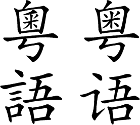 The Chinese characters "粵語/粤语" meaning Yue, made using the 汉鼎简中楷/汉鼎繁中楷 truetype font with some modification.